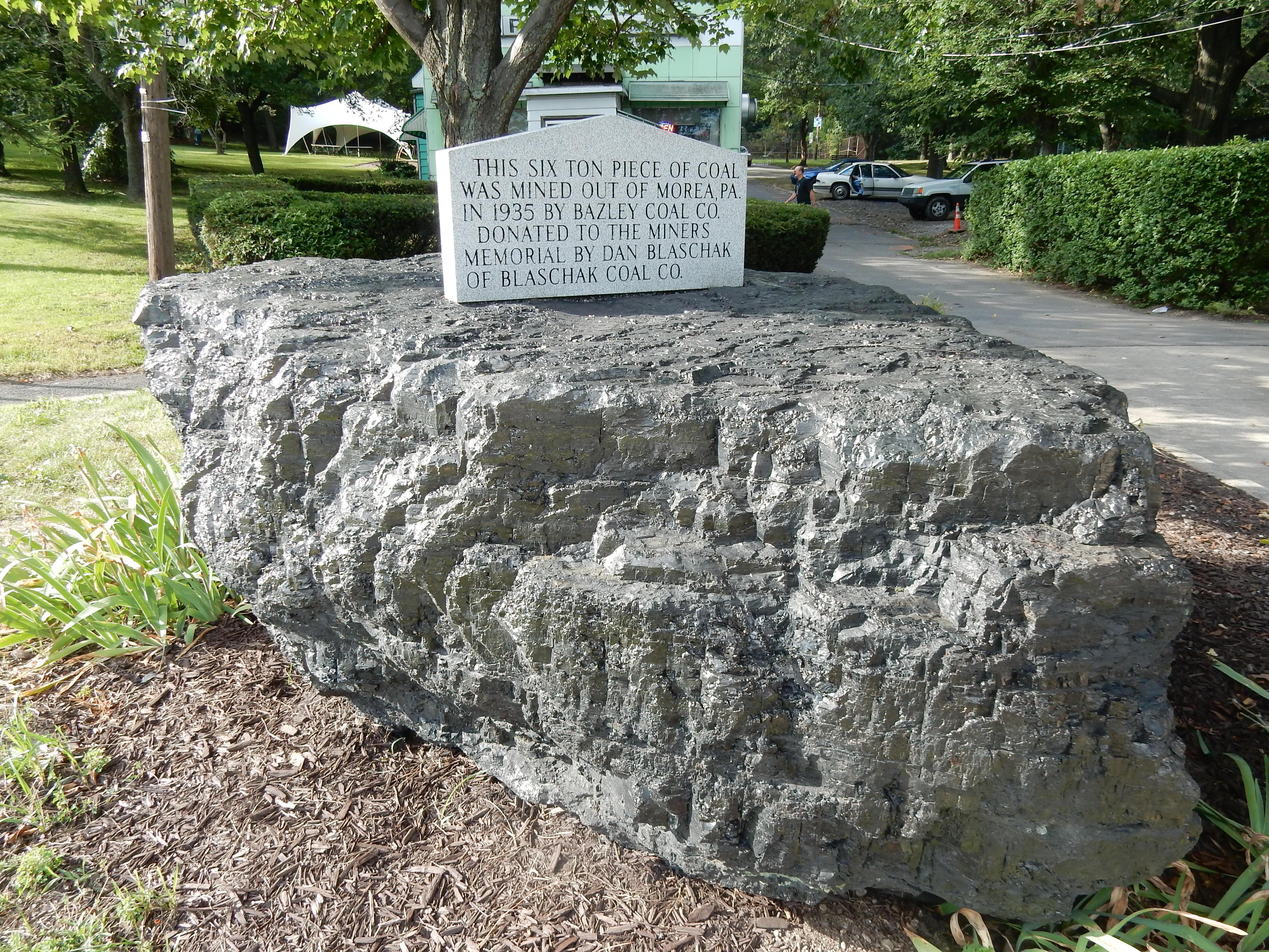 Six ton piece of Coal was mined out of Morea, PA in 1935. Shenandoah's Girard Park, Shenandoah, Pennsylvania. Corner of Main and Washington Sts.